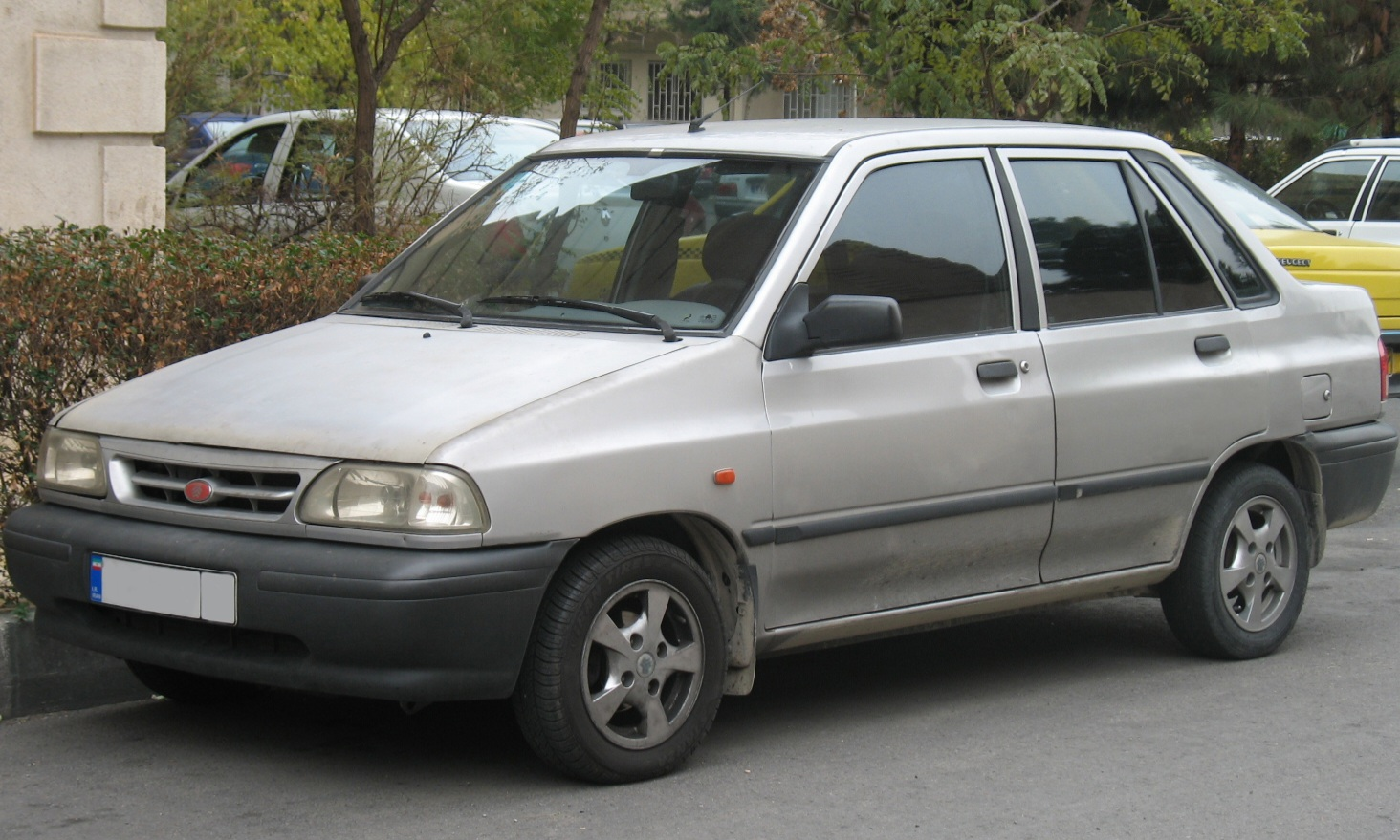 Saipa Pride 131 SE with optional 13" alloy wheels - the small rear body window and plastic side moldings are removed in higher model years.